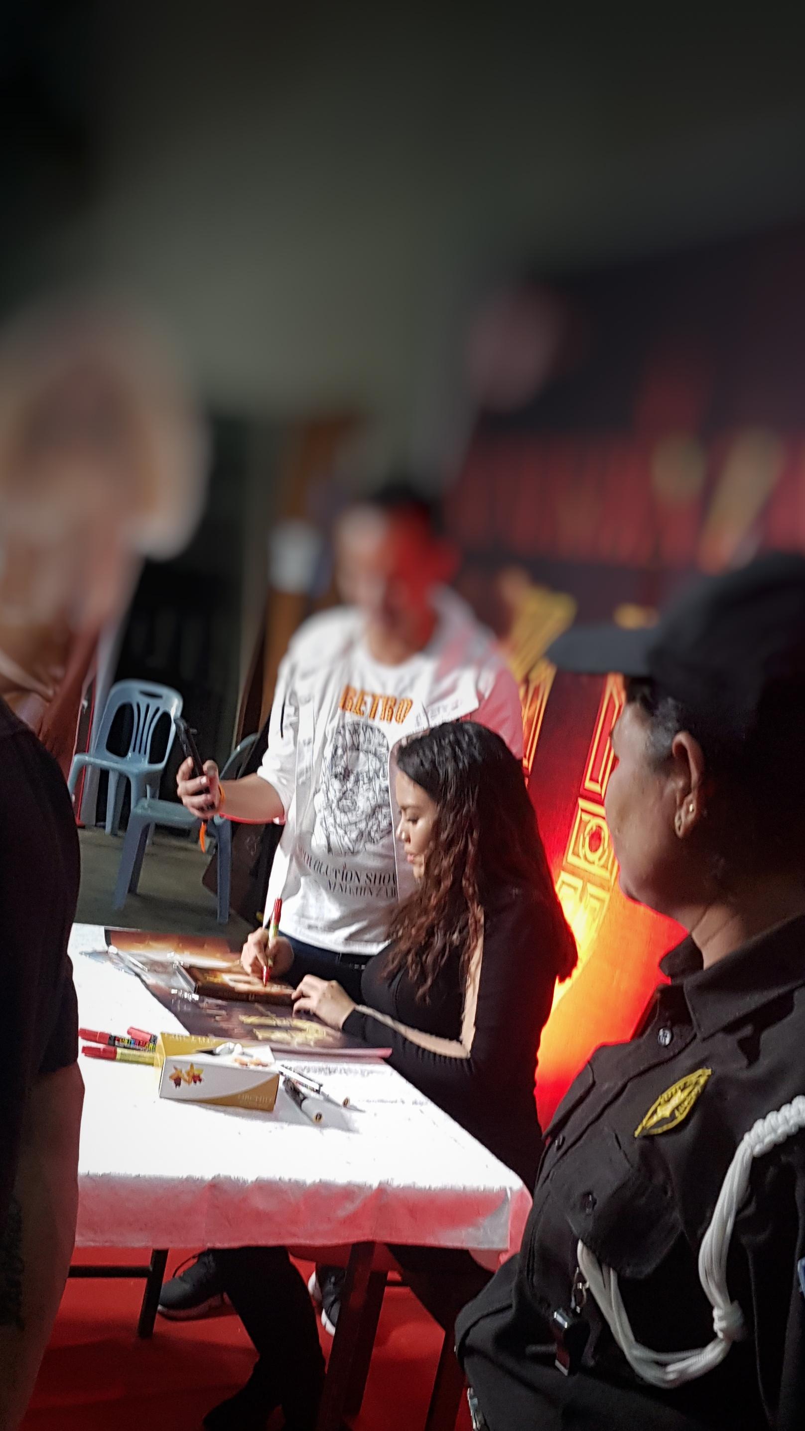 Ni Ni Khin Zaw Signing in the U Album Music Video Release Signing Concert.